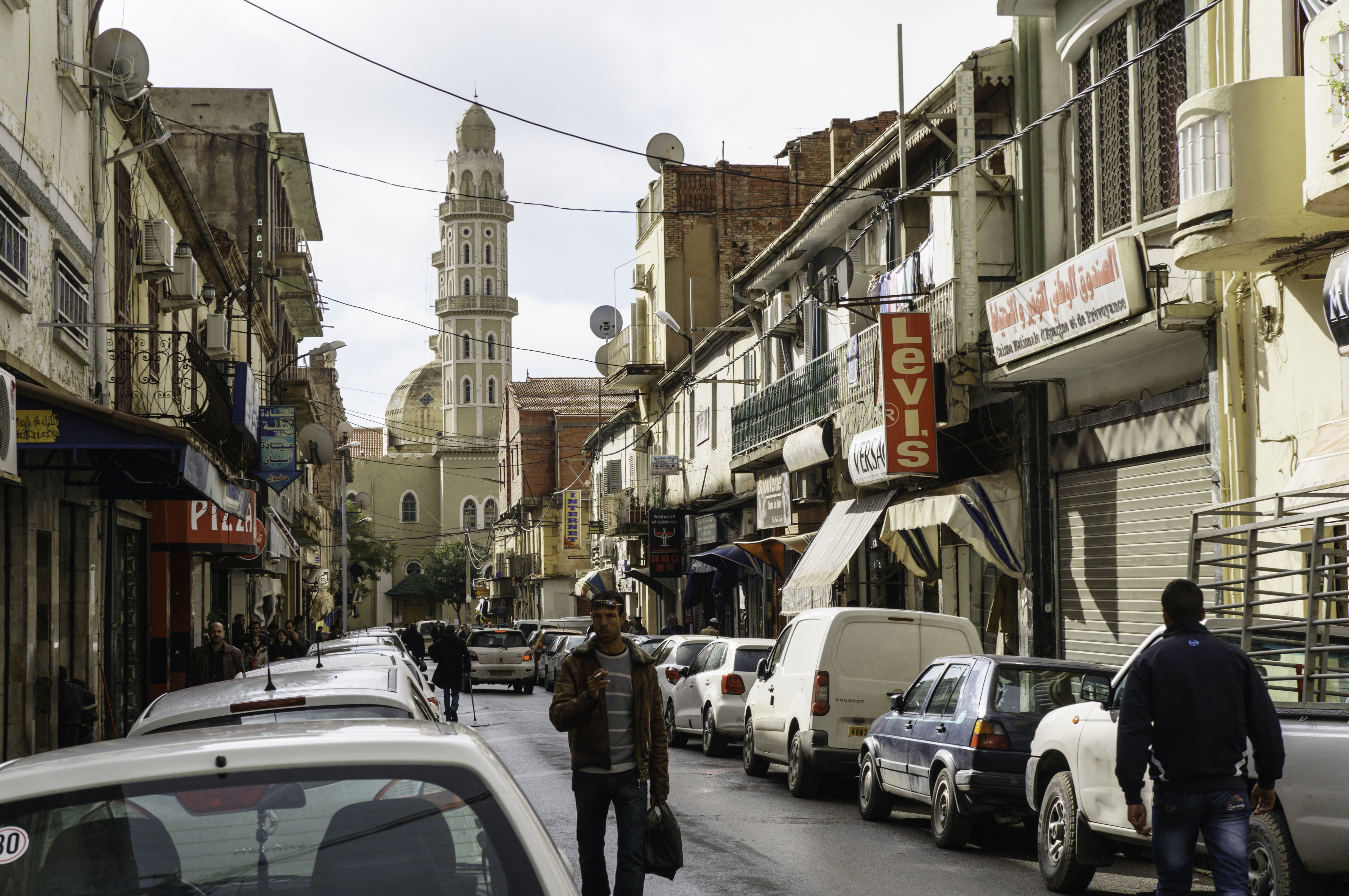 Sétif